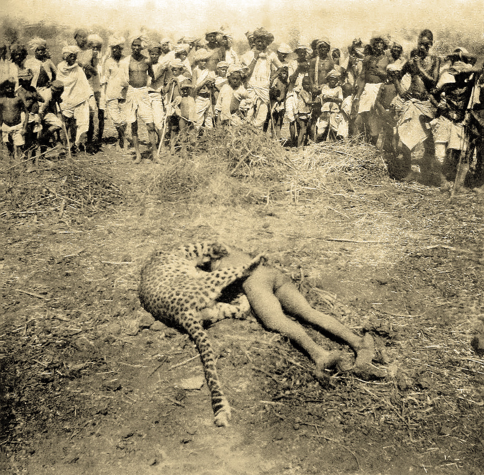 The Gunsore man-eating leopard after it was shot by British officer W. A. Conduitt on the night of 21 April 1901 in Somnapur village, Seoni district, India.